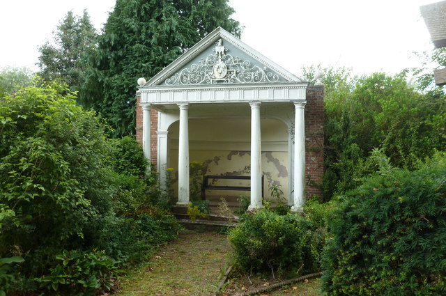 Greek Temple, Burford House Gardens